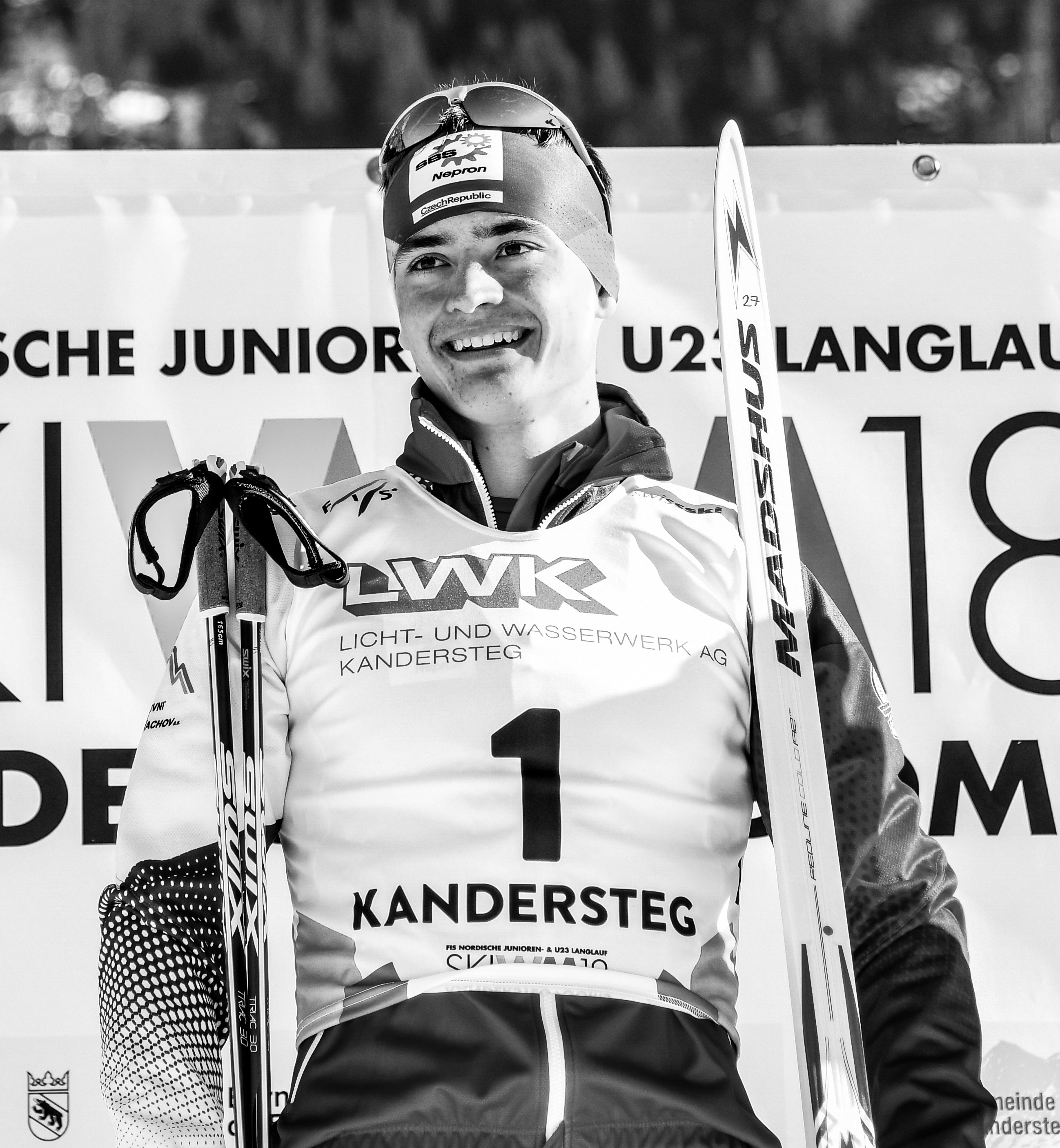 Ondrej Pazout nordic combined athlete